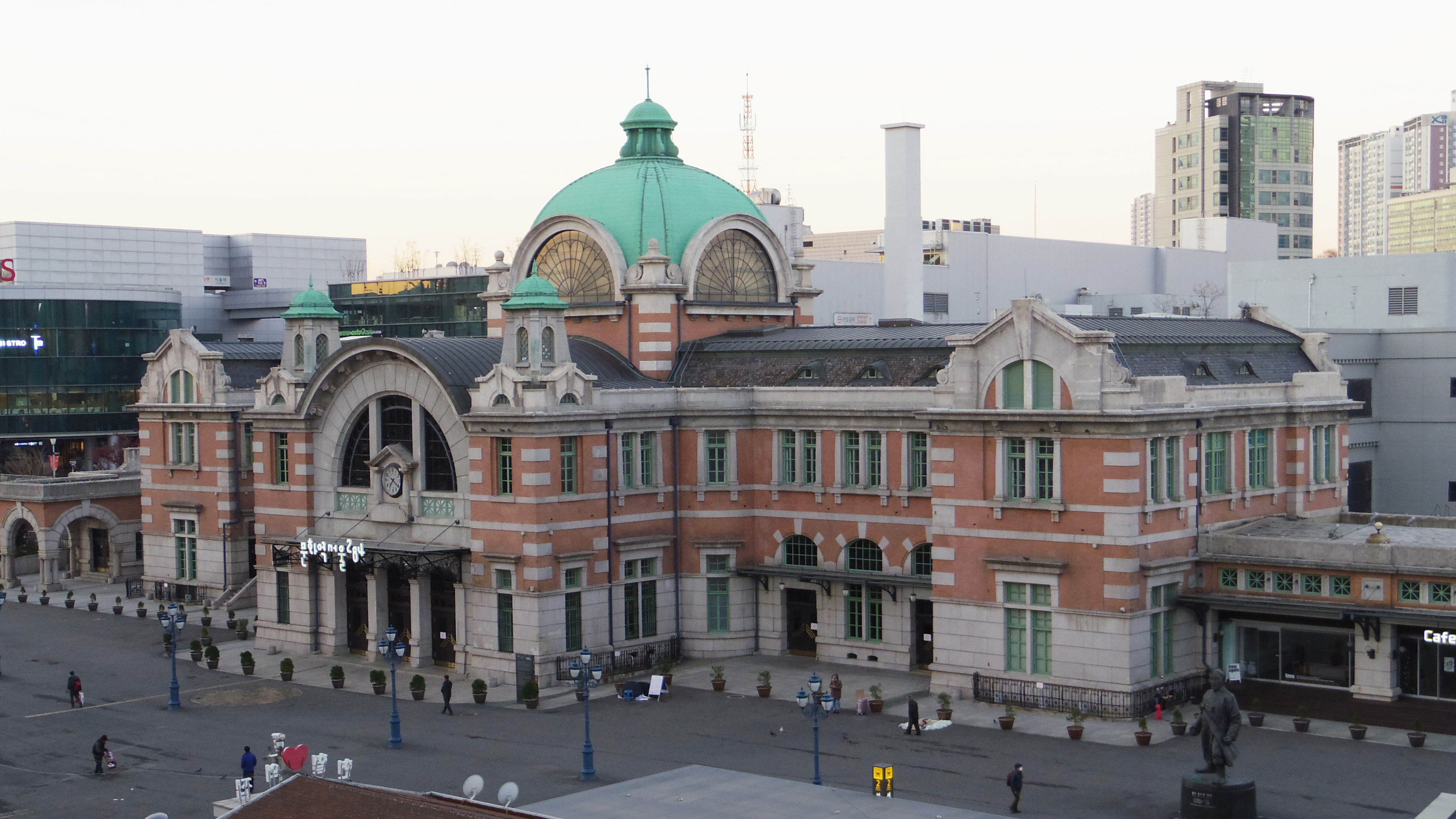 The old Seoul Station in Jung-gu, Seoul, Republic of Korea(South Korea)